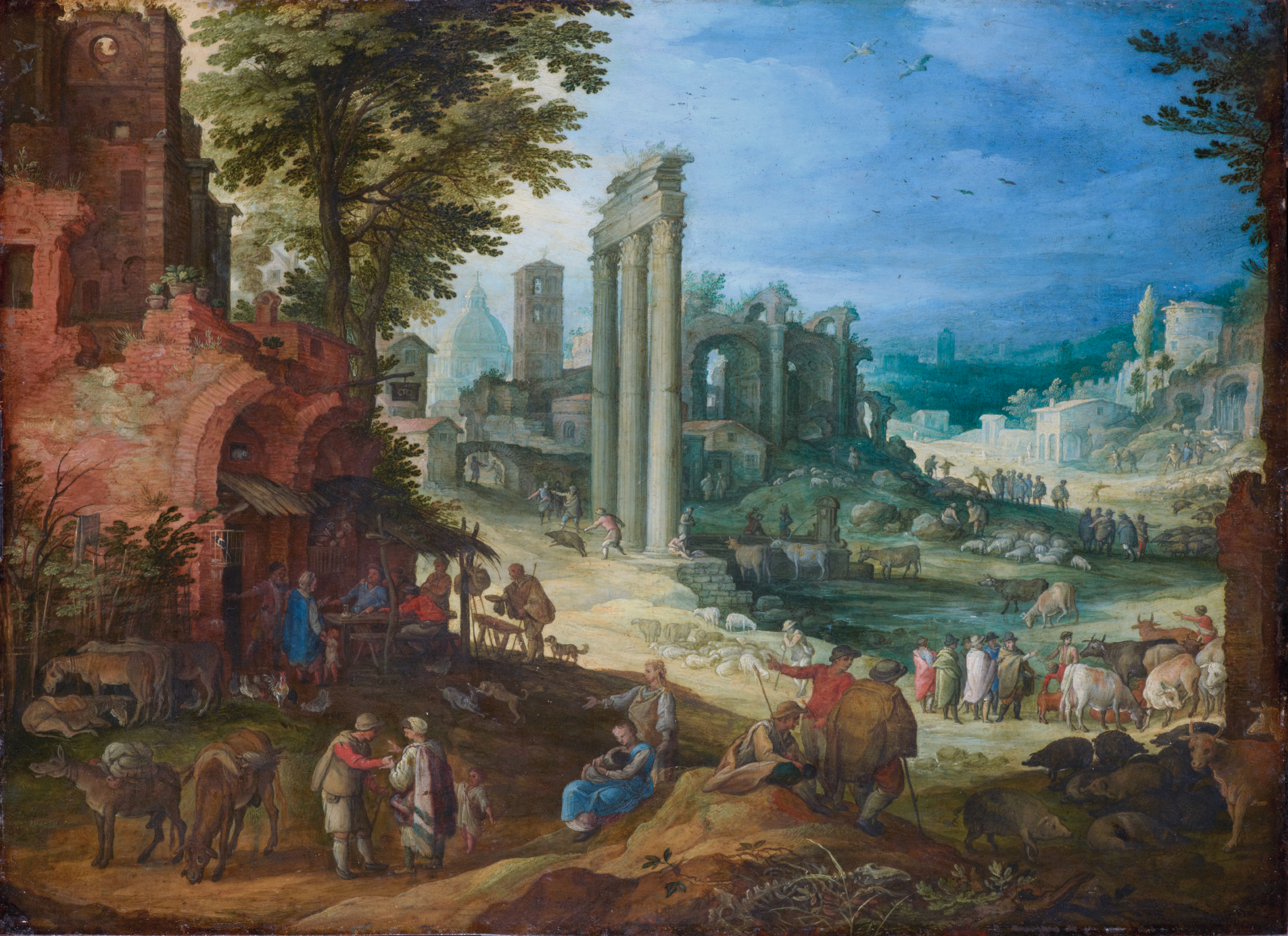 View of the Forum Romanum with the Columns of the Castor and Pollux Temples and the Hadrian Basilica